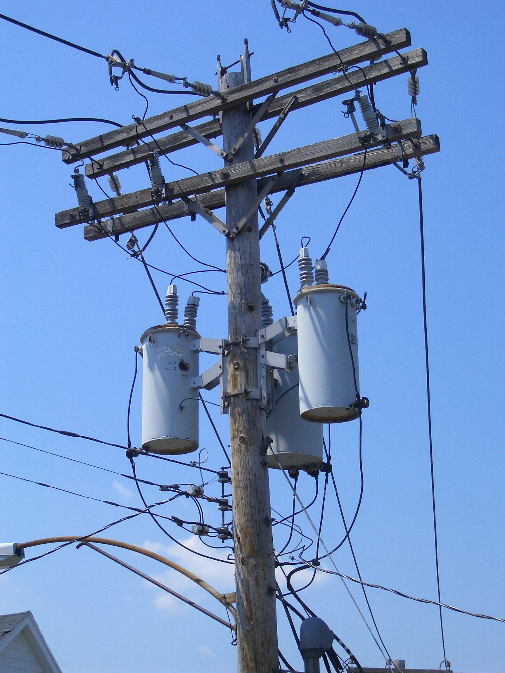 A 'transformer bank' on a utility pole, a common way of providing three-phase power to customers in North America. It consists of three single-phase distribution transformers connected to act as a three-phase transformer, to provide three-phase power at secondary voltages to commercial customers. The primaries of the transformers are connected in a "Y" configuration, with one side of each winding connected to the primary phase wires (top) through fused cutouts and the other sides connected together and grounded.